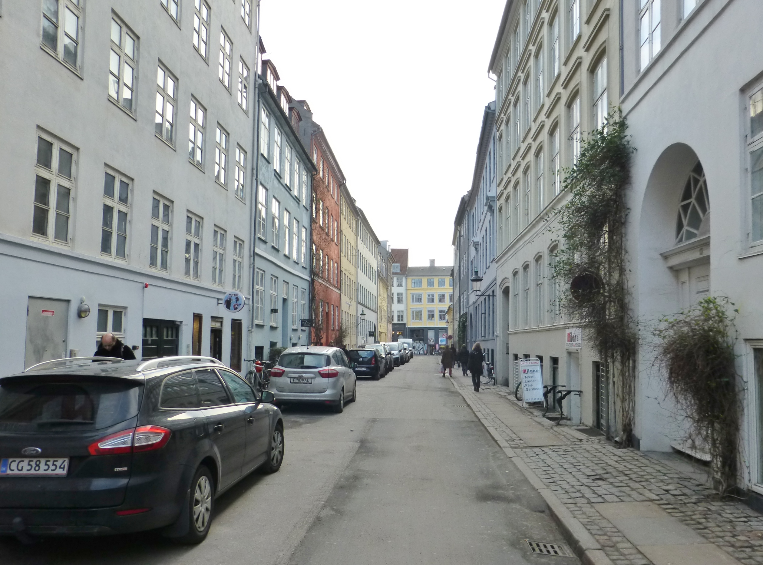 The street Peder Hvitfeldts Stræde in Indre By in Copenhagen.